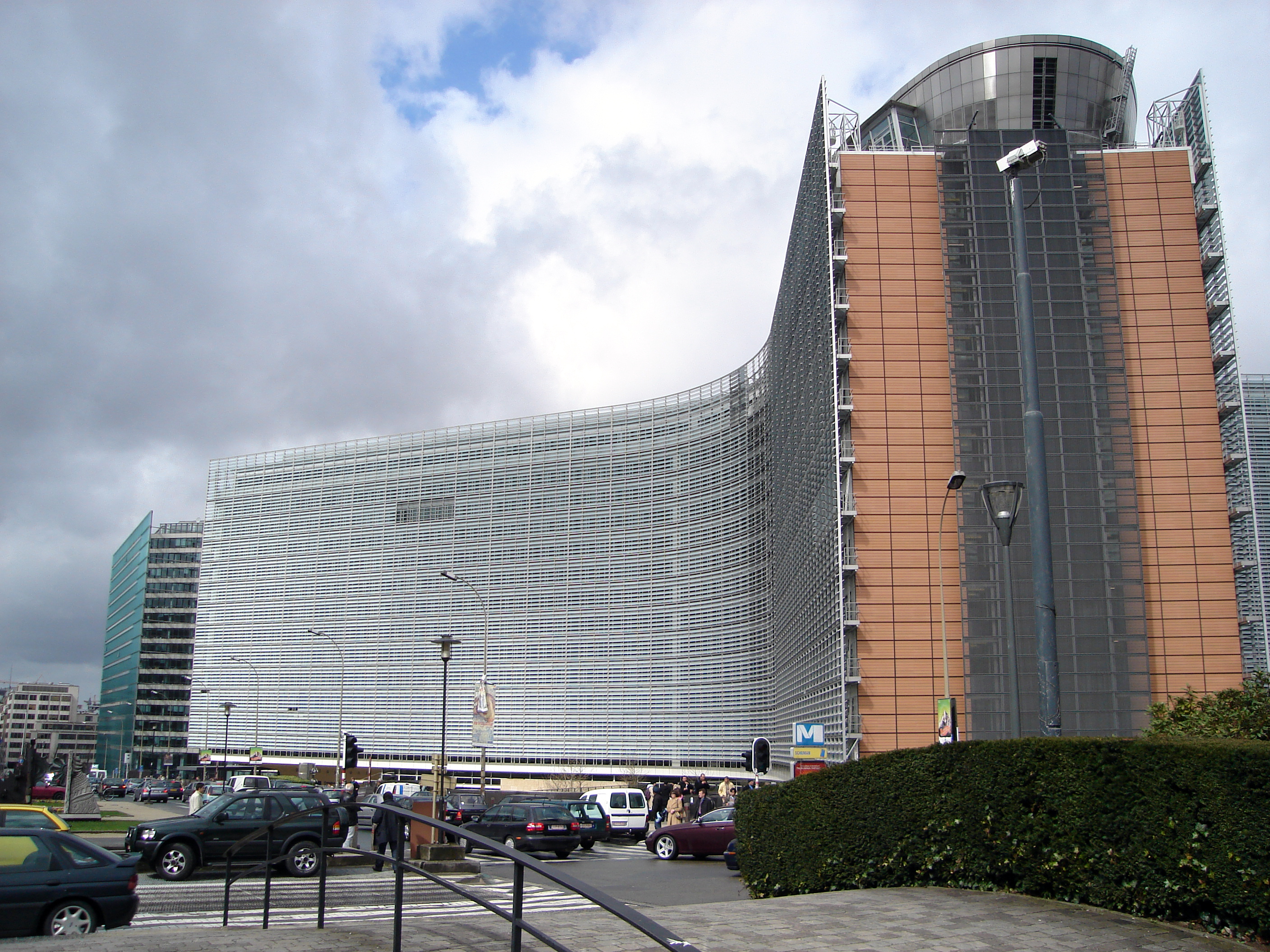 The Berlaymont building, the seat of the European Commission. View from the Schuman roundabout.